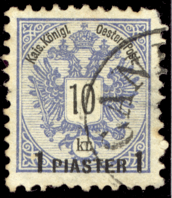 Postage stamp of Austro-Hungarian Empire for use by Levant post offices, 1 pi., cancelled with Canea (Crete) postmark.